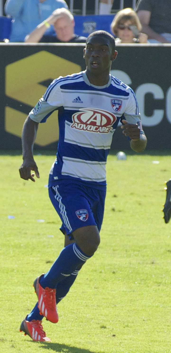 Fabian Castillo, FC Dallas, Buck Shaw Stadium, 26 October 2013